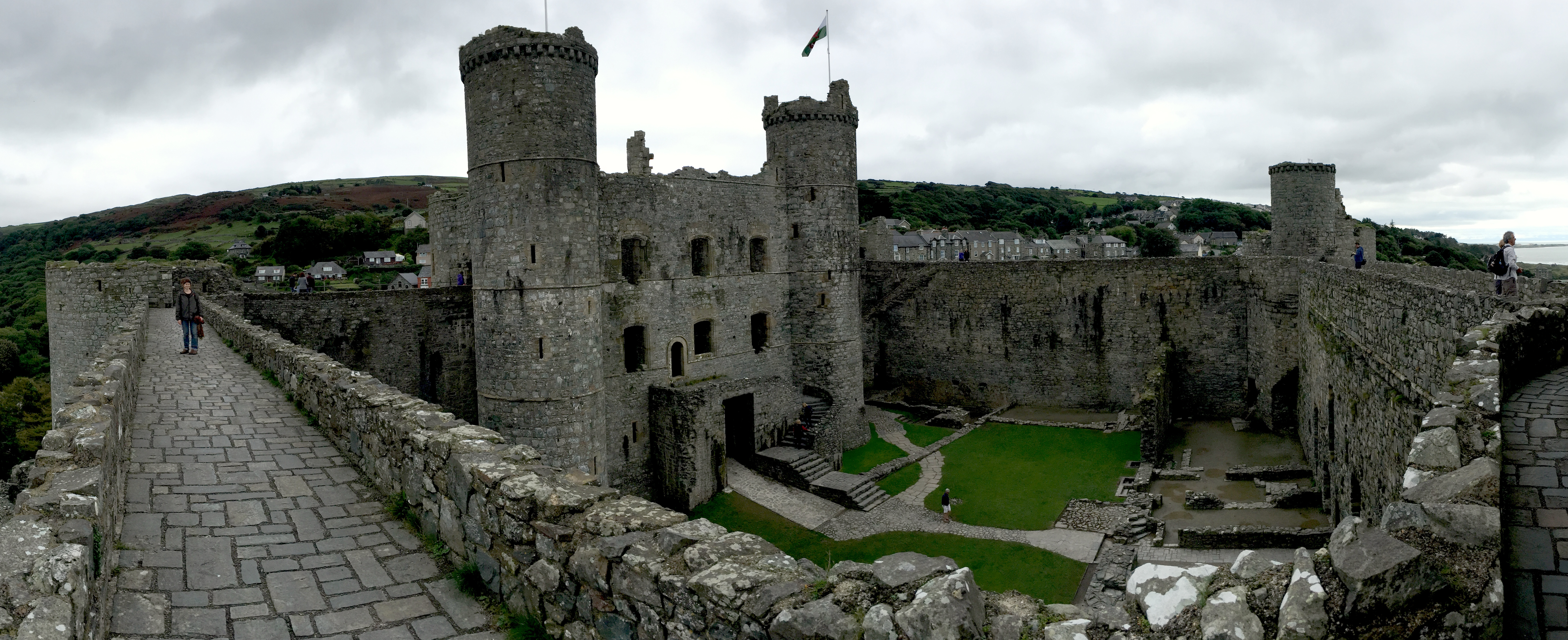 Harlech Castle Wikidata has entry Q540964 with data related to this item.